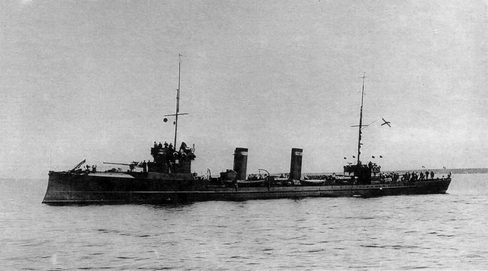 Imperial Russian destroyer Стерегущий (Steregushchiy).